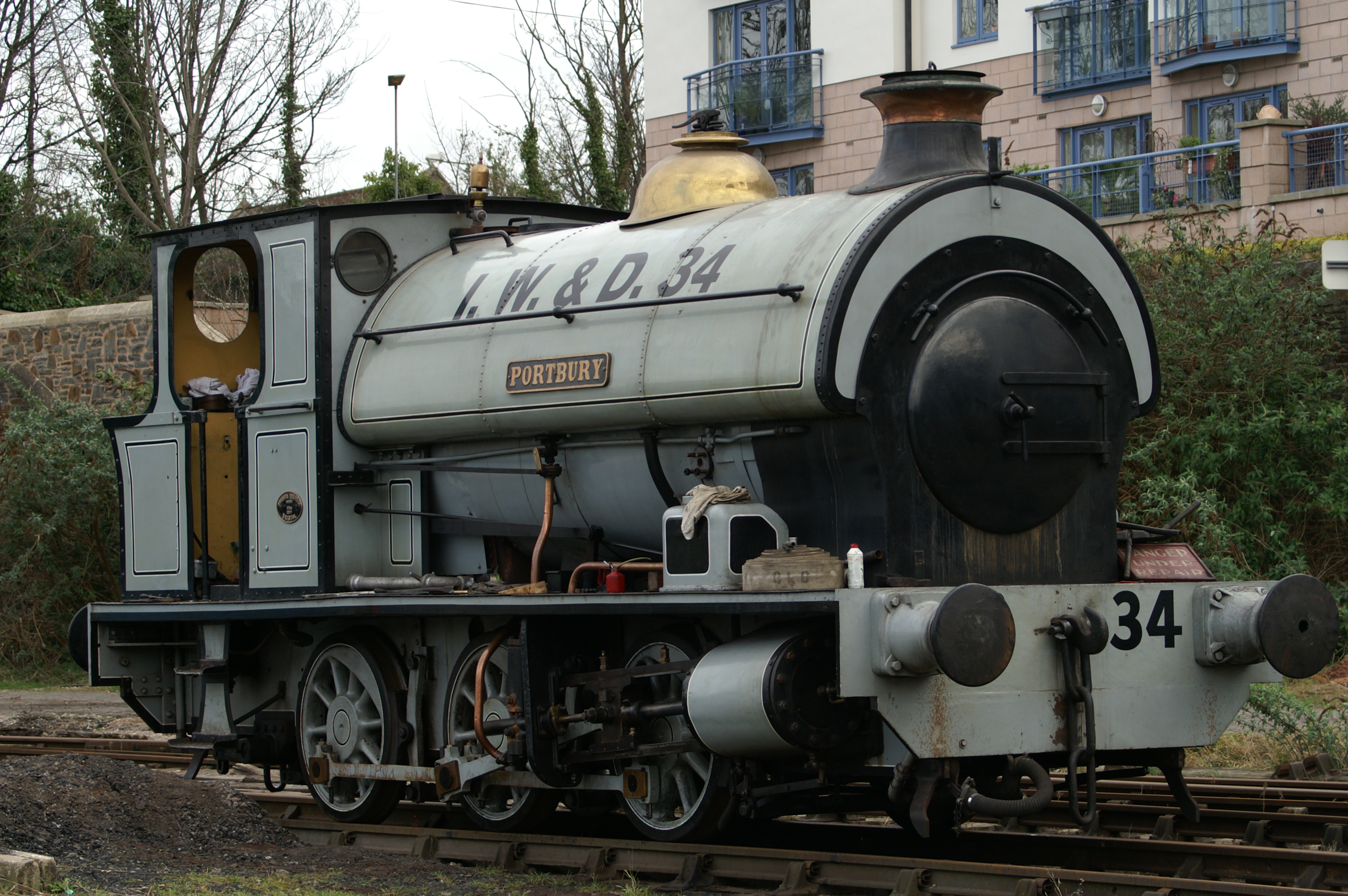 Bristol Harbour Railway